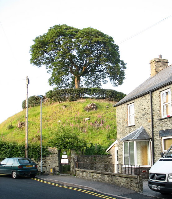 Tomen y Bala - a Norman motte